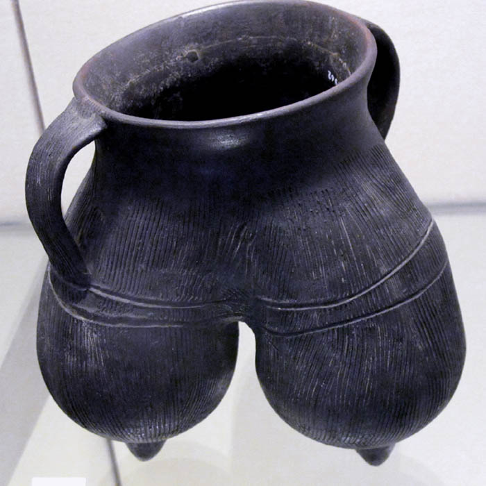 Cooking pot. Burnished black earthenware, Longshan culture (2400–1800 BC), Neolithic period.